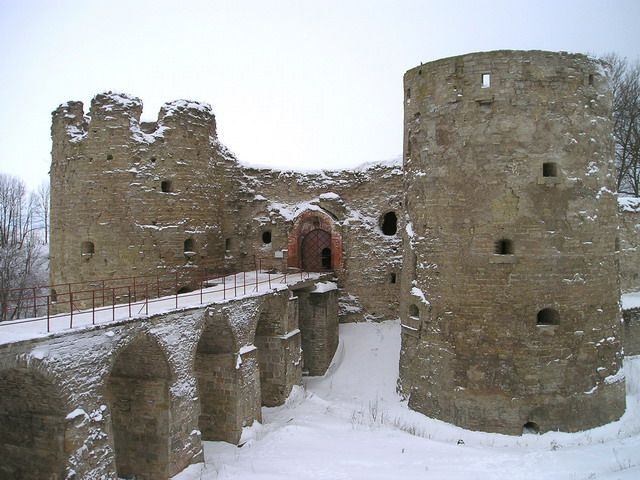 Entrance to the fortress. North and South towers. Fortress Koporye